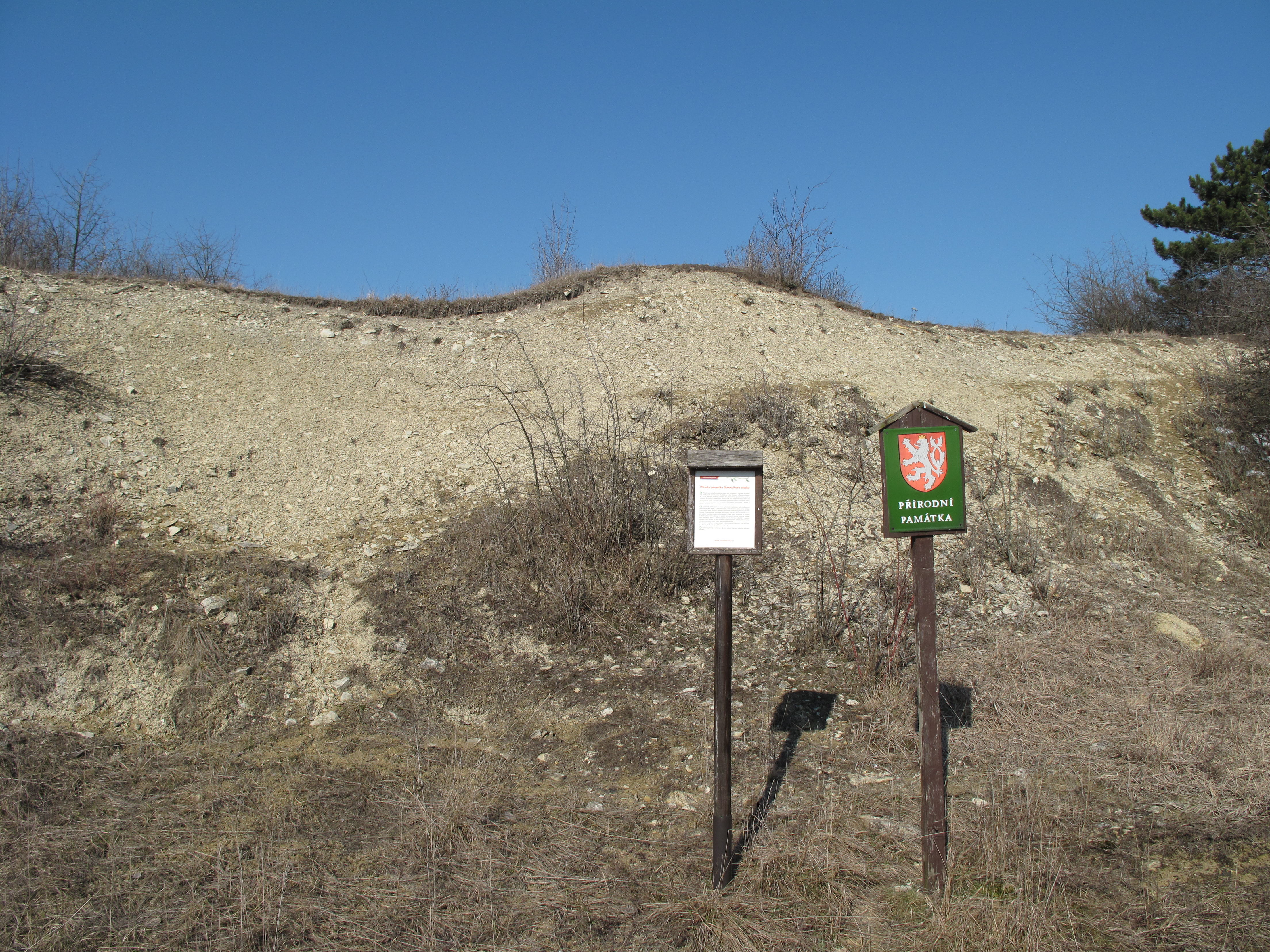 Information desks in natural monument "Bohouškova skalka", Kolubky Municipality, Kolín District, Czech Republic.